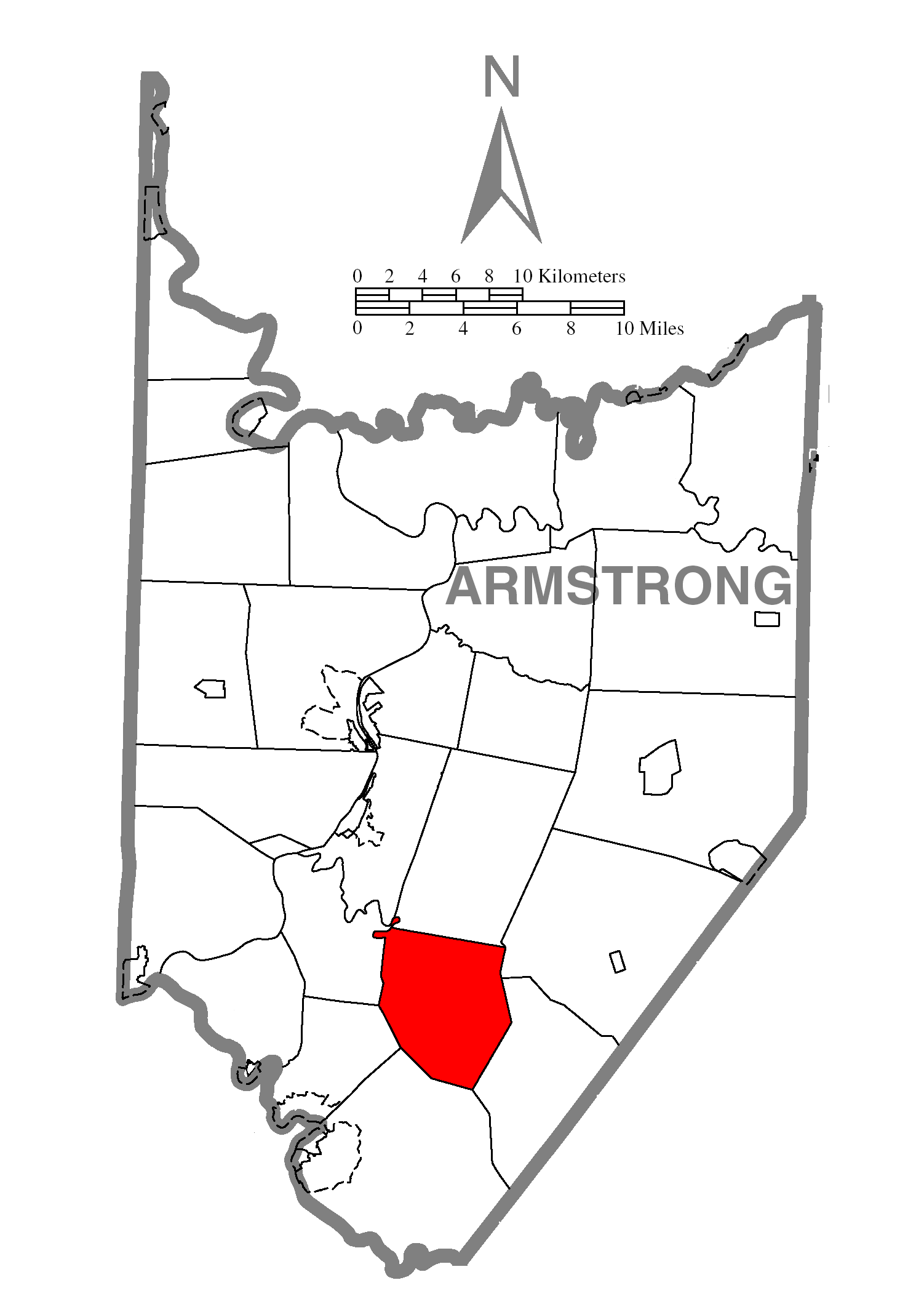 A map of Armstrong County showing Burrell Township, Pennsylvania (alternate) highlighted on the map.